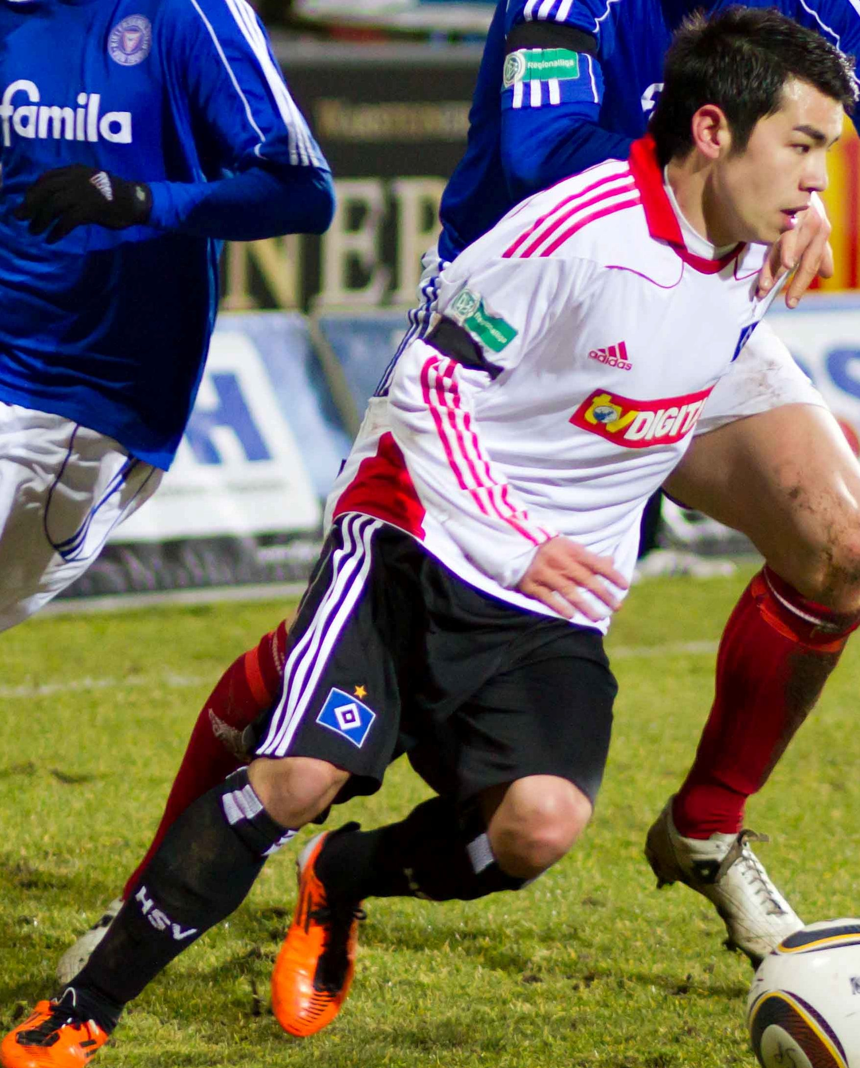 Zhi Gin Lam playing for Hamburger SV II against Holstein Kiel (0:0) at the 16th March 2011 (18. round).